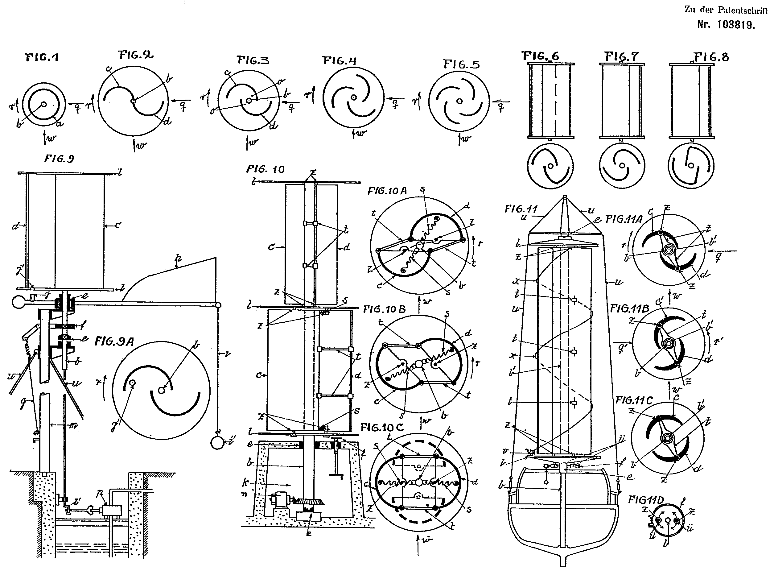 Drawing sheet of Sigurd Savonius' Austrian patent of 1925.